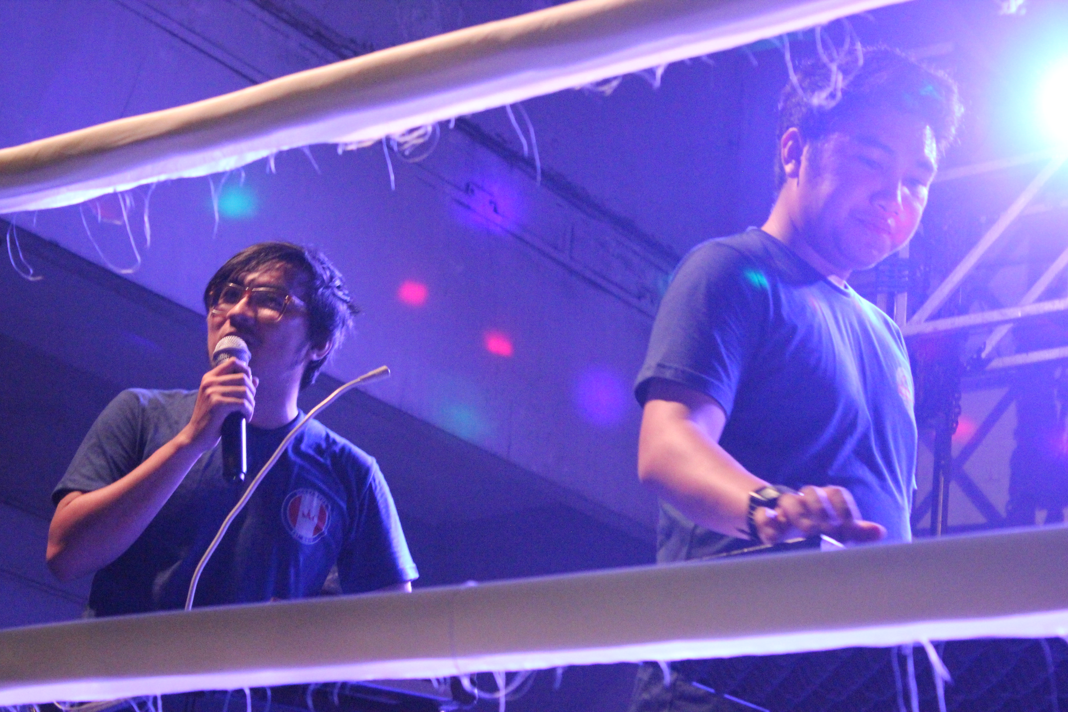 Bottlesmoker performed at Screamous distro opening at Malang, East Java, Indonesia